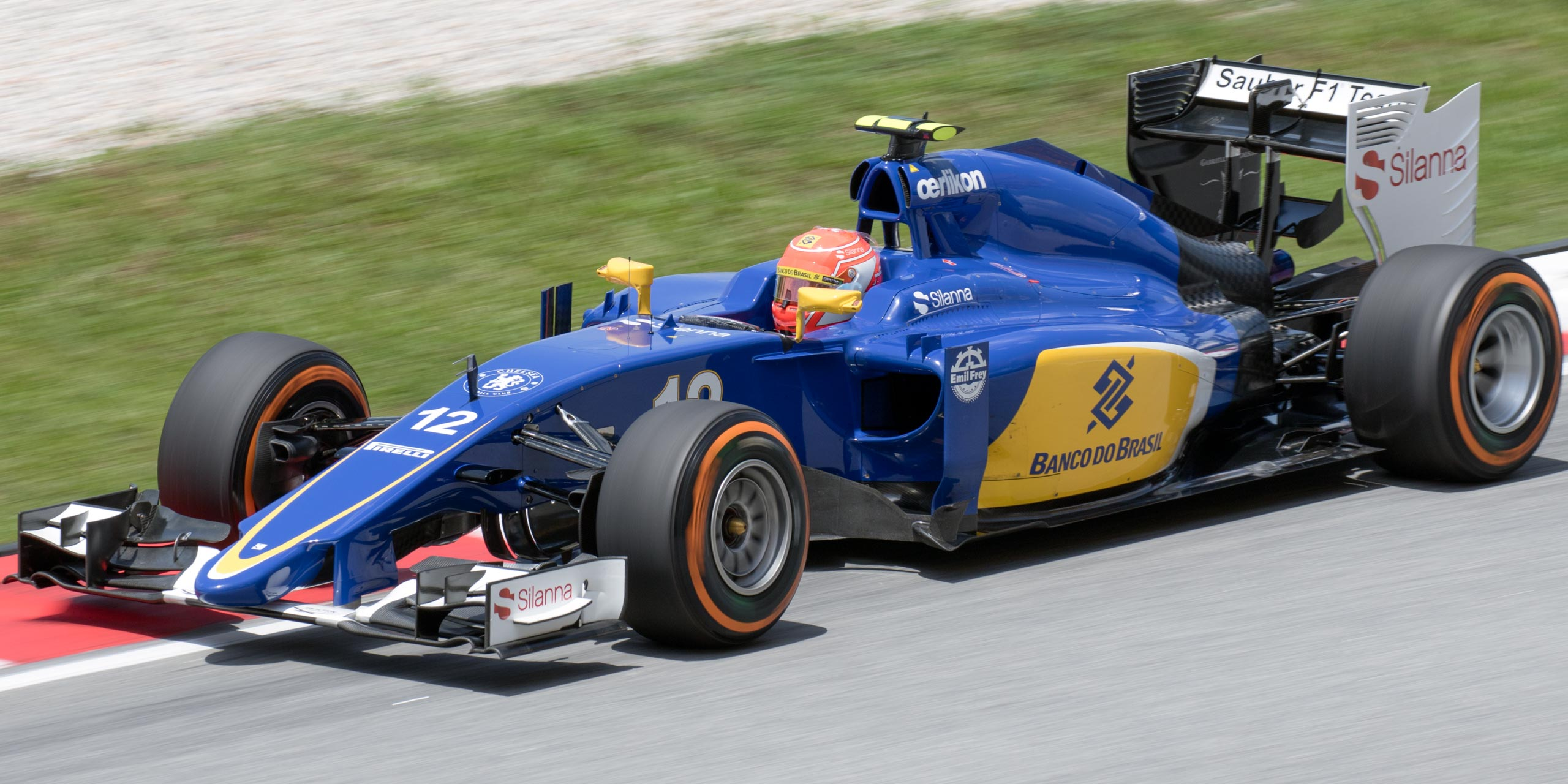 Formula One 2015 Rd.2 Malaysian GP: Felipe Nasr (Sauber)